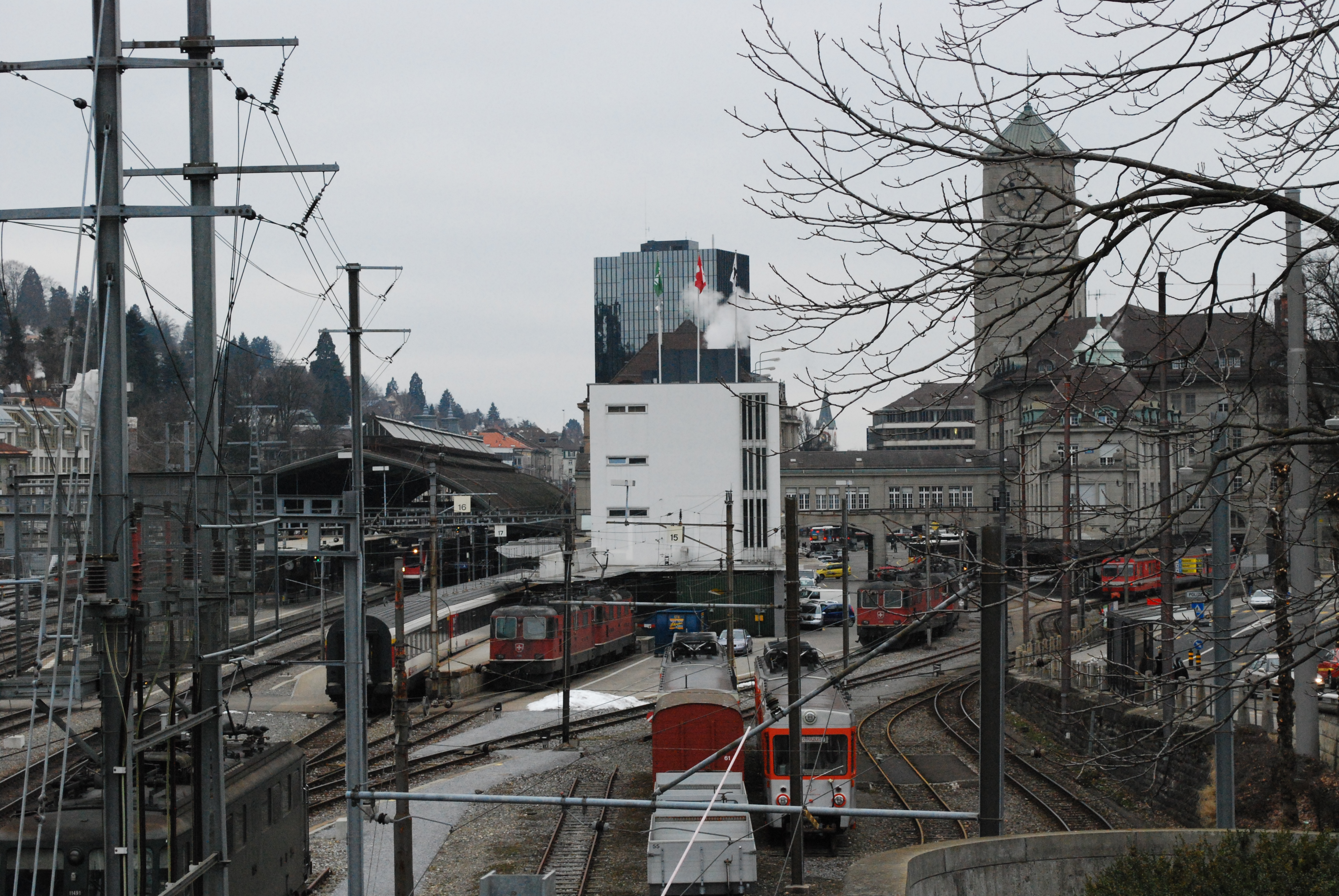 Main Station of the city of St. Gall